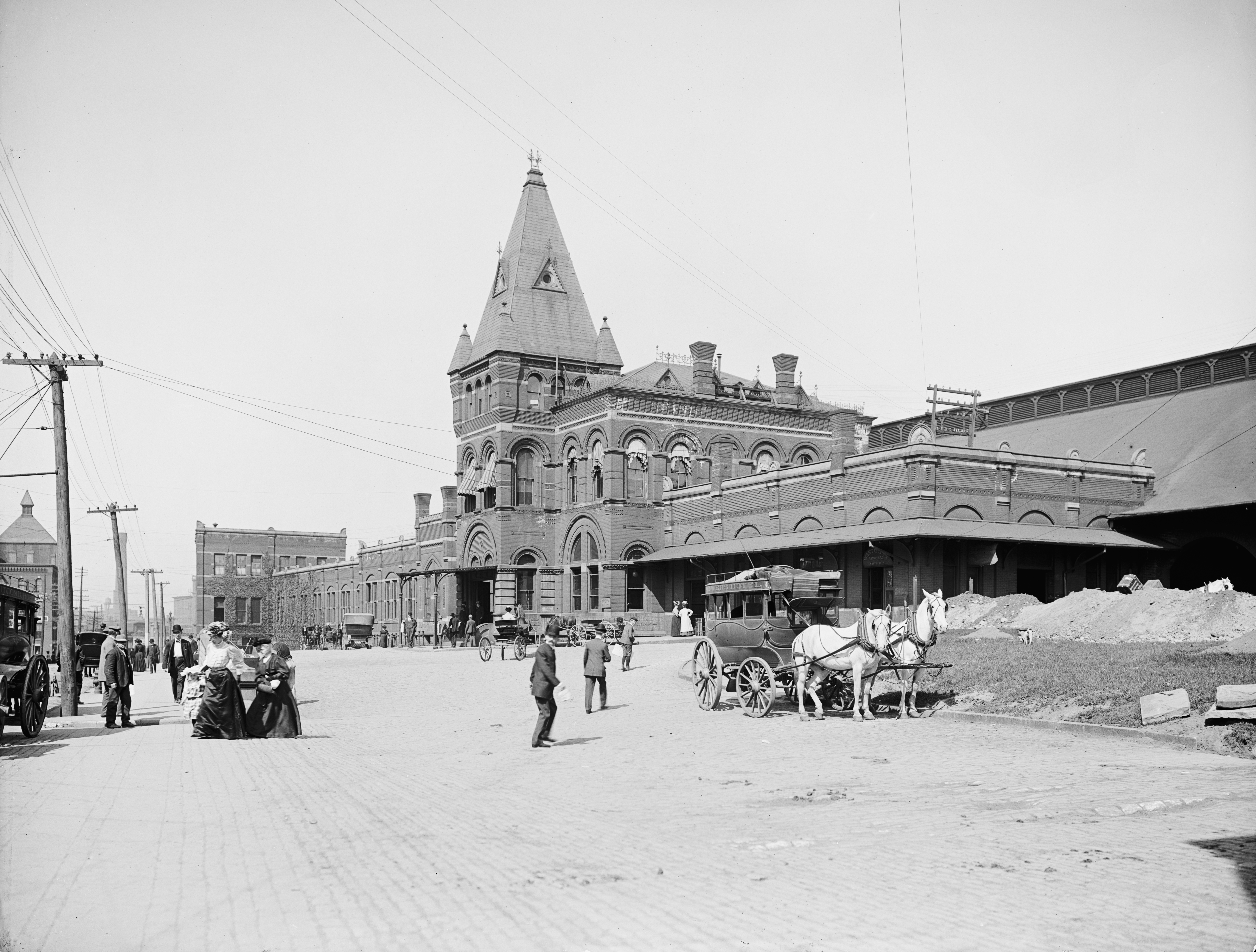 New York Central Railroad station, Rochester, N.Y. Medium: 1 negative : glass ; 8 x 10 in. Reproduction Number: LC-D4-36769 (b&w glass neg.) Call Number: LC-D4-36769 [P&P] Repository: Library of Congress Prints and Photographs Division Washington, D.C. 20540 USA Notes: Title from jacket. "4038" on negative. Detroit Publishing Co. no. 036769. Gift; State Historical Society of Colorado; 1949.